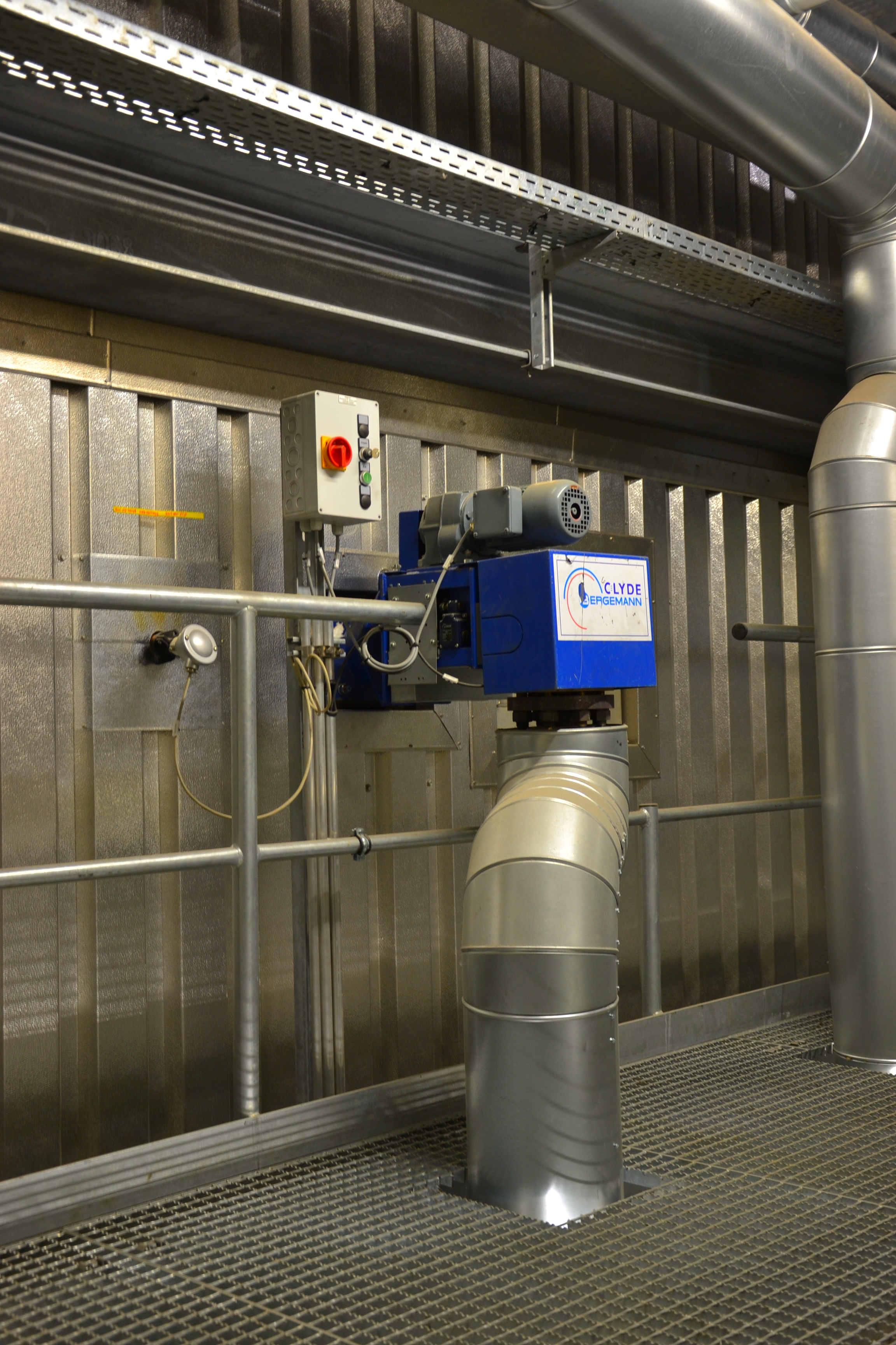 Soot blower of the Biomasseheizkraftwerk Steyr, Austria